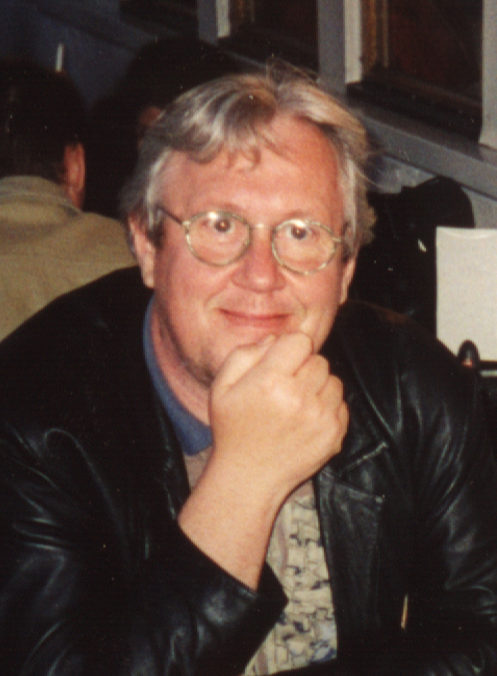 Lars Westin (born 1948), Swedish jazz journalist and former editor of the world's oldest jazz magazine, Orkesterjournalen.